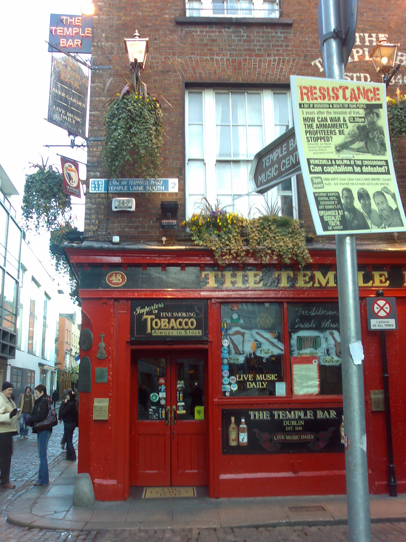 Temple Bar detail, Dublin, Ireland.